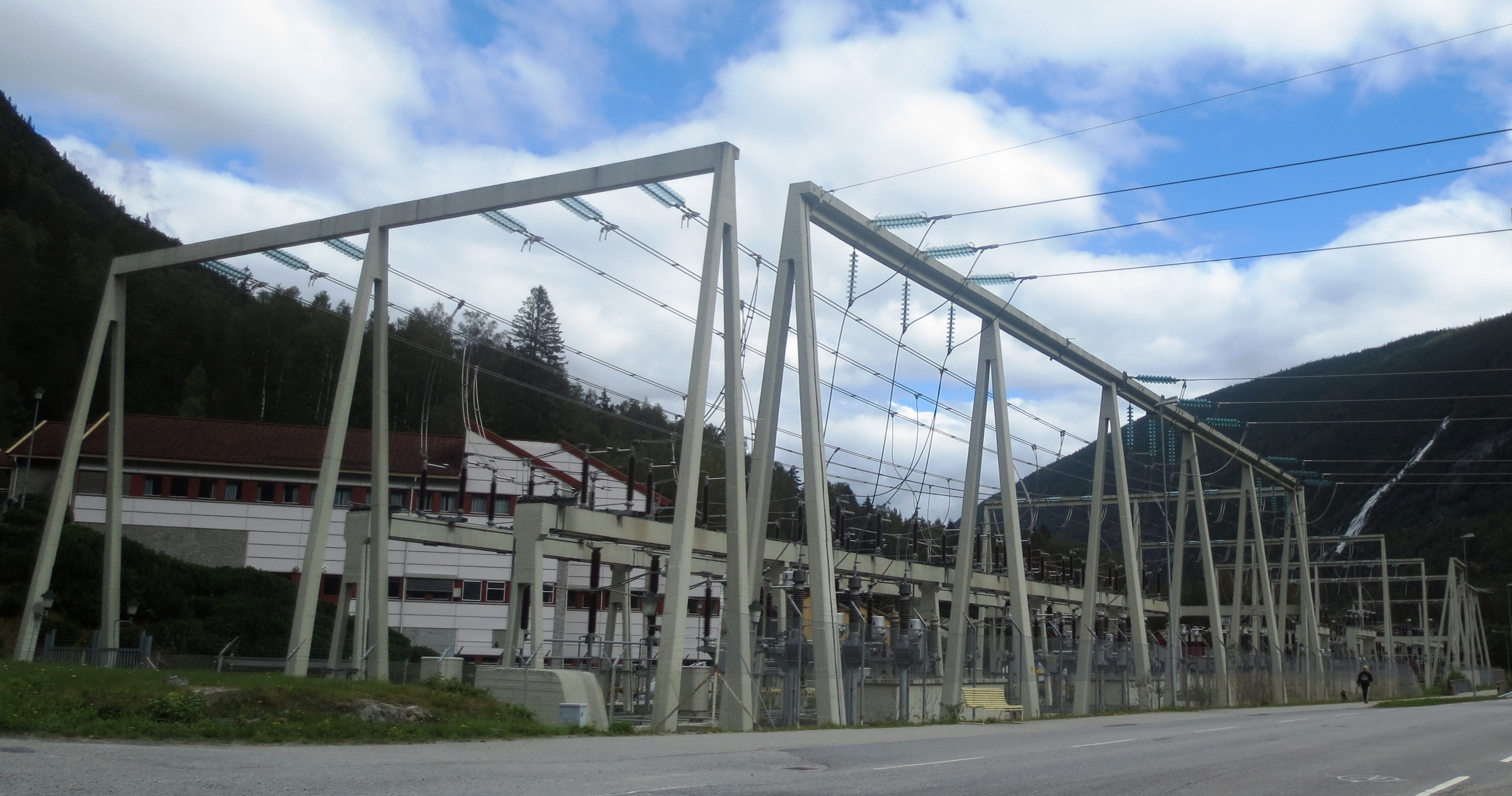 Transmission outlet at the entrance to the Mår Power station (Mår kraftverk) in Rjukan, Telemark (Norway).